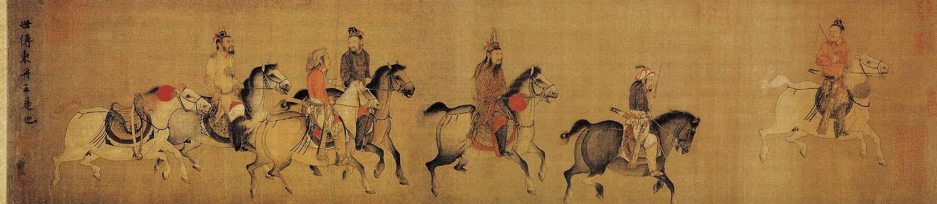 The King of Dongdan Goes Forth (東丹王出行圖), scroll, light colors on silk. 146.8 x 77.3 cm. National Palace Museum, Taibei (國立故宮博物院). The painting was originally attributed to Li Zanhua (李贊華 909-946), but is now thought to be from later artist. See: Zhongguo gu dai shu hua jian ding zu (中国古代书画鑑定组). 1997. Zhongguo hui hua quan ji (中国绘画全集). Zhongguo mei shu fen lei quan ji. Beijing: Wen wu chu ban she. Volume 5. Page 16.